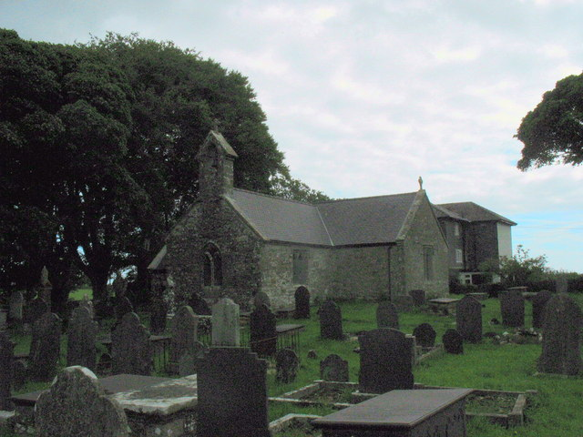 Eglwys St Gallgo Church from the West, near to Llanallgo, Isle of Anglesey/Sir Ynys Mon, Great Britain.